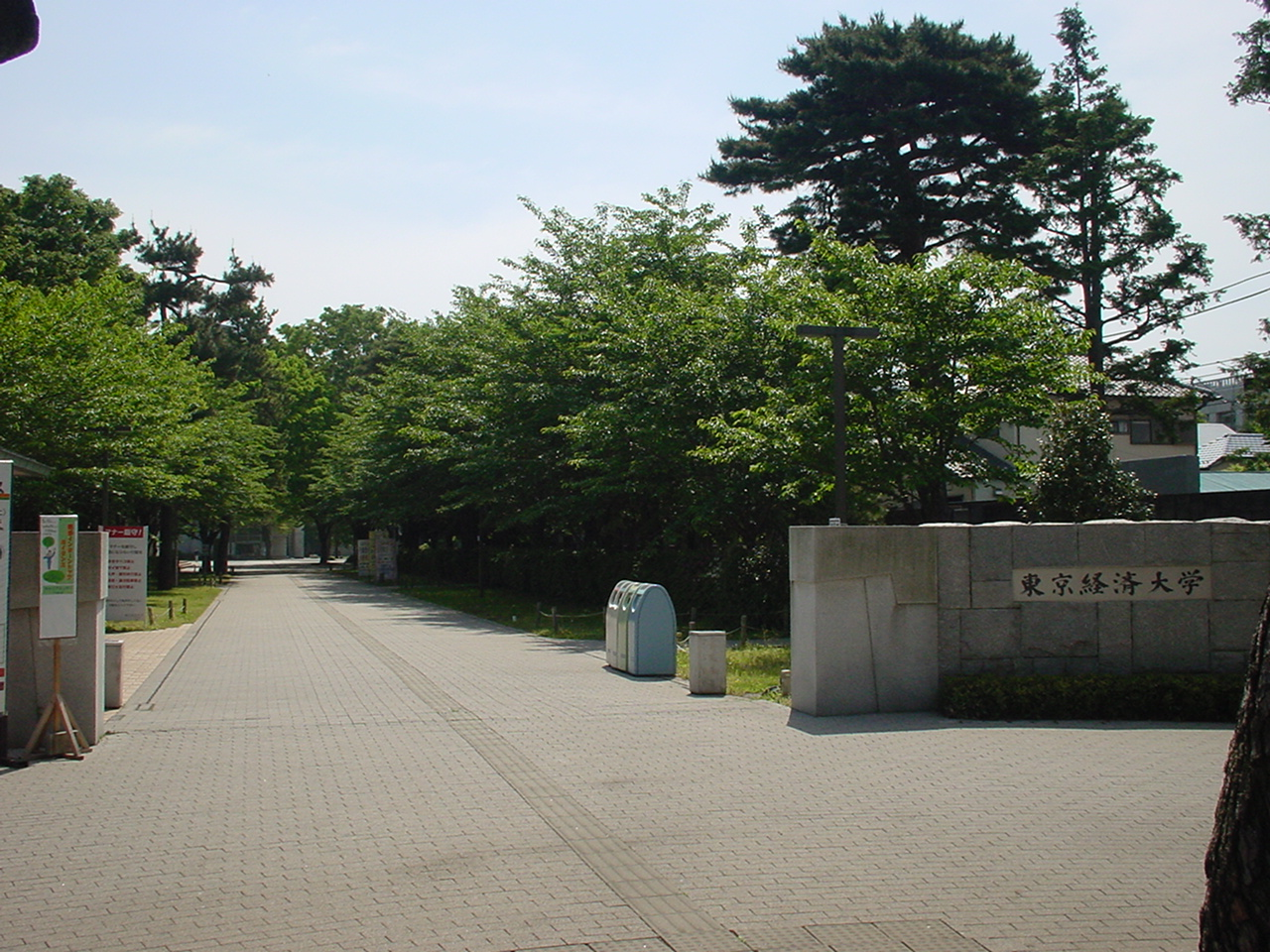 The main gate of Kokubunji Campus, Tokyo Keizai University. Photograph was taken on May 6, 2006 by the original uploader.